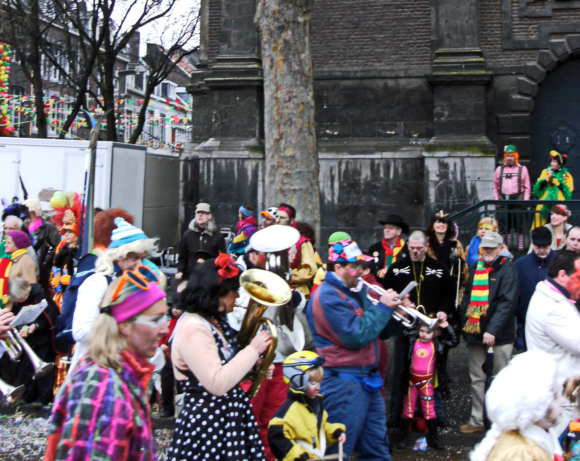 Kesselskade Maastricht carnaval 2009.